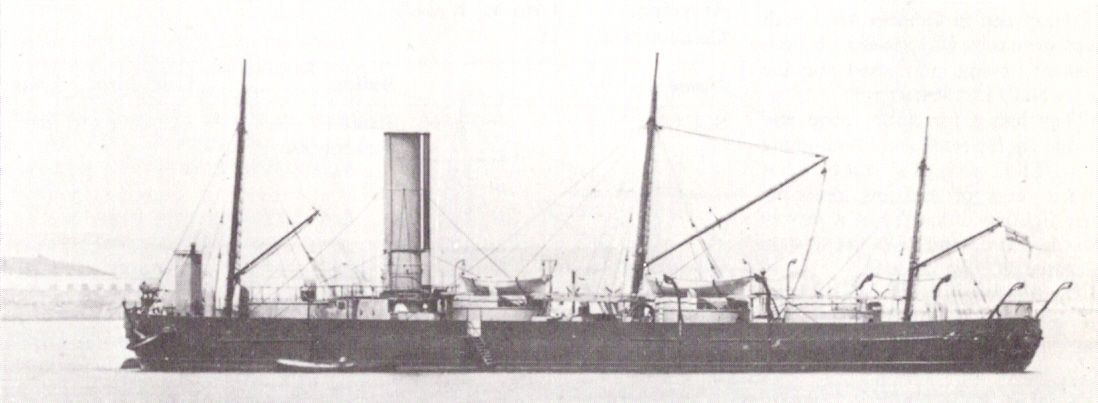 British coast defense turret ship HMS Royal Sovereign as completed, photographed from her port beam